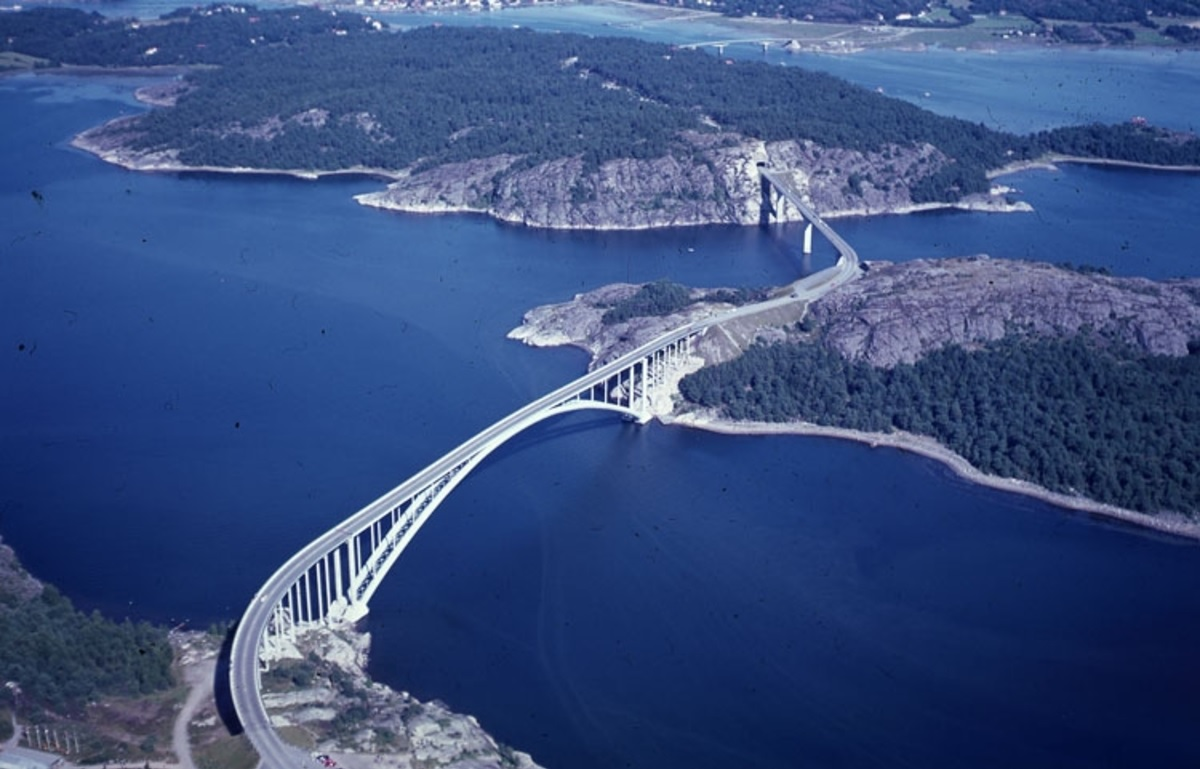 The Almö Bridge (inaugurated in 1960), that connected the island of Tjörn (Sweden's 7th largest island) to the mainland. The bridge collapsed January 18th 1980, when the bulk carrier MS Star Clipper struck the bridge arch. Eight people died that night as they drove over the edge until the road on the Tjörn side was closed 40 minutes after the accident. A new cable-stayed bridge, Tjörn Bridge, was built and inaugurated in 1981.